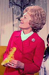 First Lady Pat Nixon, taken at a meeting with television character Big Bird in the White House, 1970: She holds one of Big Bird's feathers in her hands.